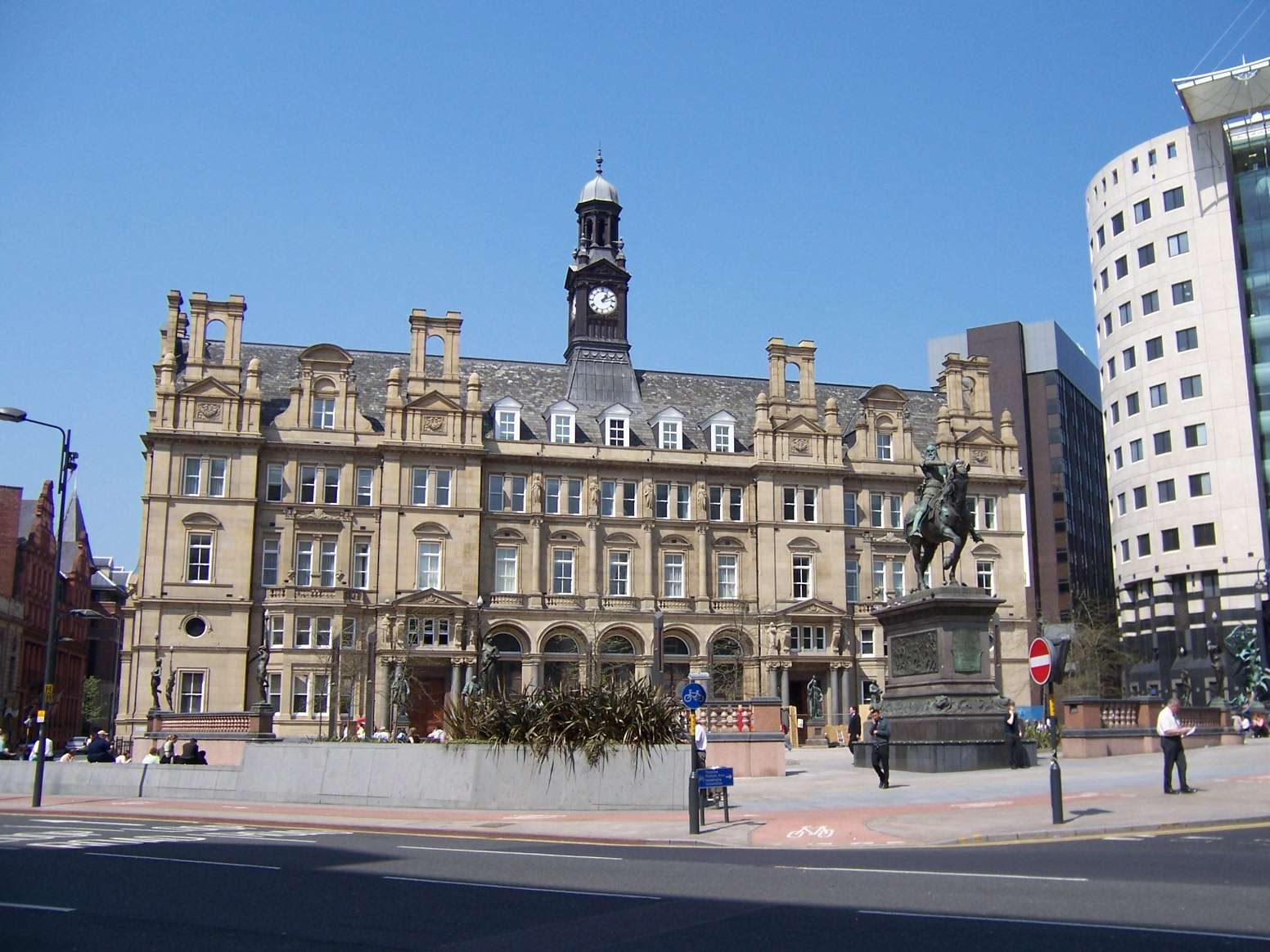 City Square with Post Office in Leeds, West Yorkshire (England) own work; photo taken on 10 May 2006